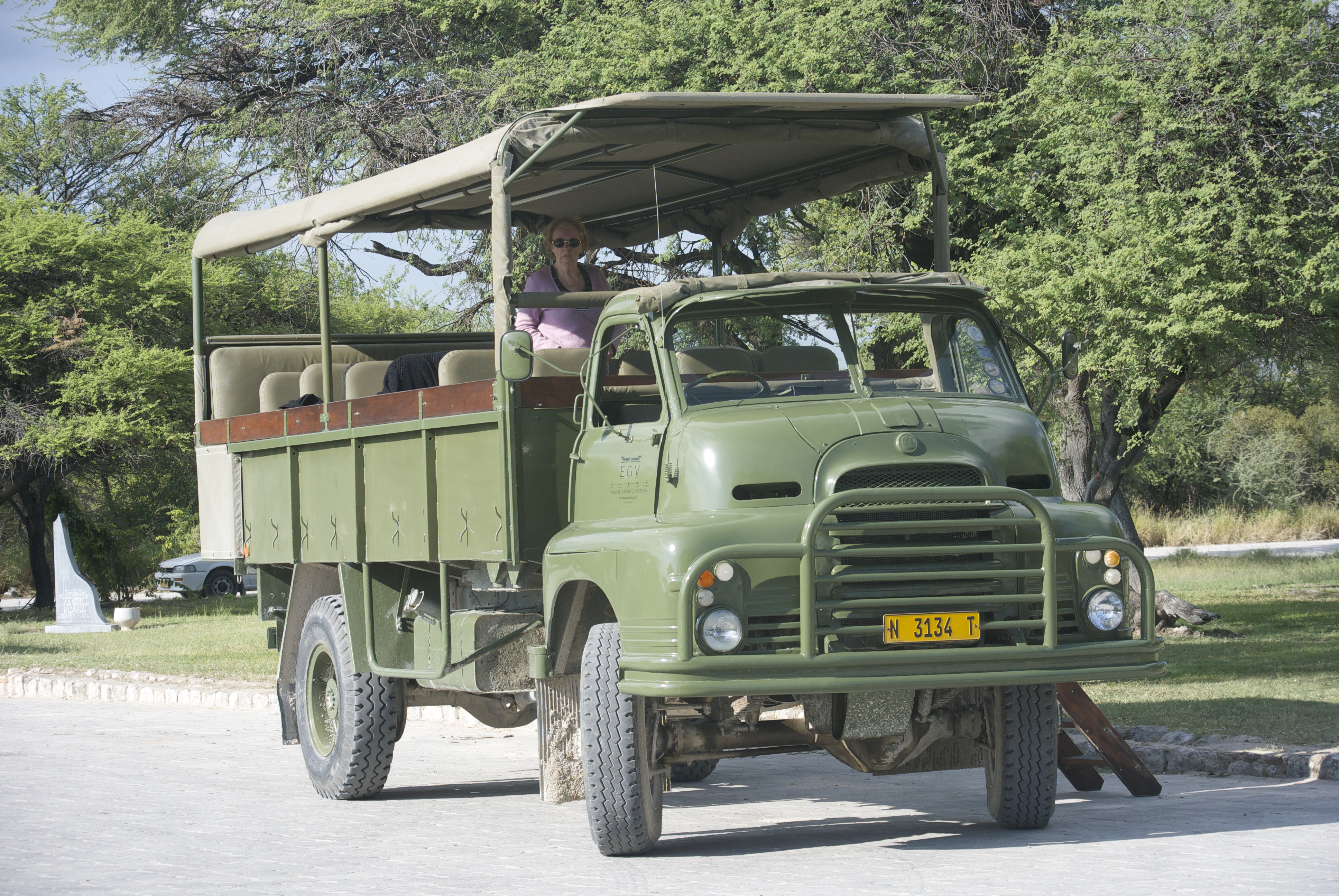 This is an image with the theme "Africa on the Move or Transport" from: Namibia